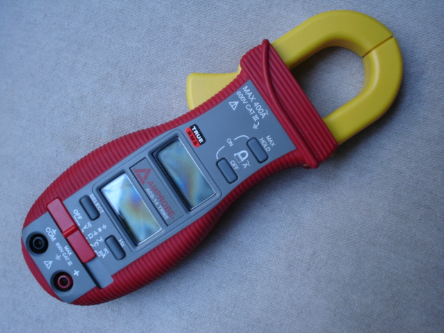 I own the image... I took the picture specifically for the Clamp meter article.